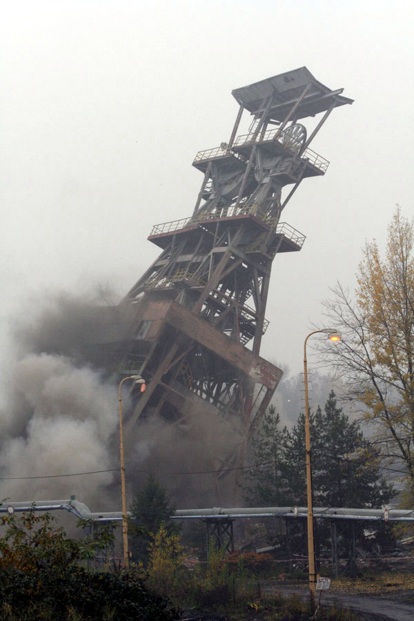 Detonation of tower of Eleonora coal mine in Doubrava (Dąbrowa), Czech Republic